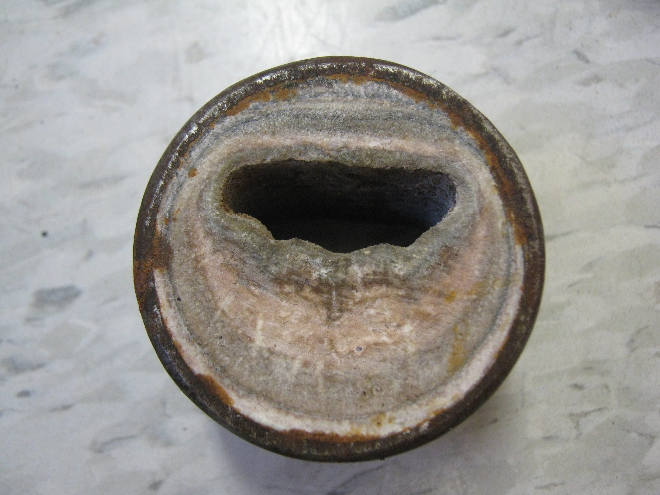 scale